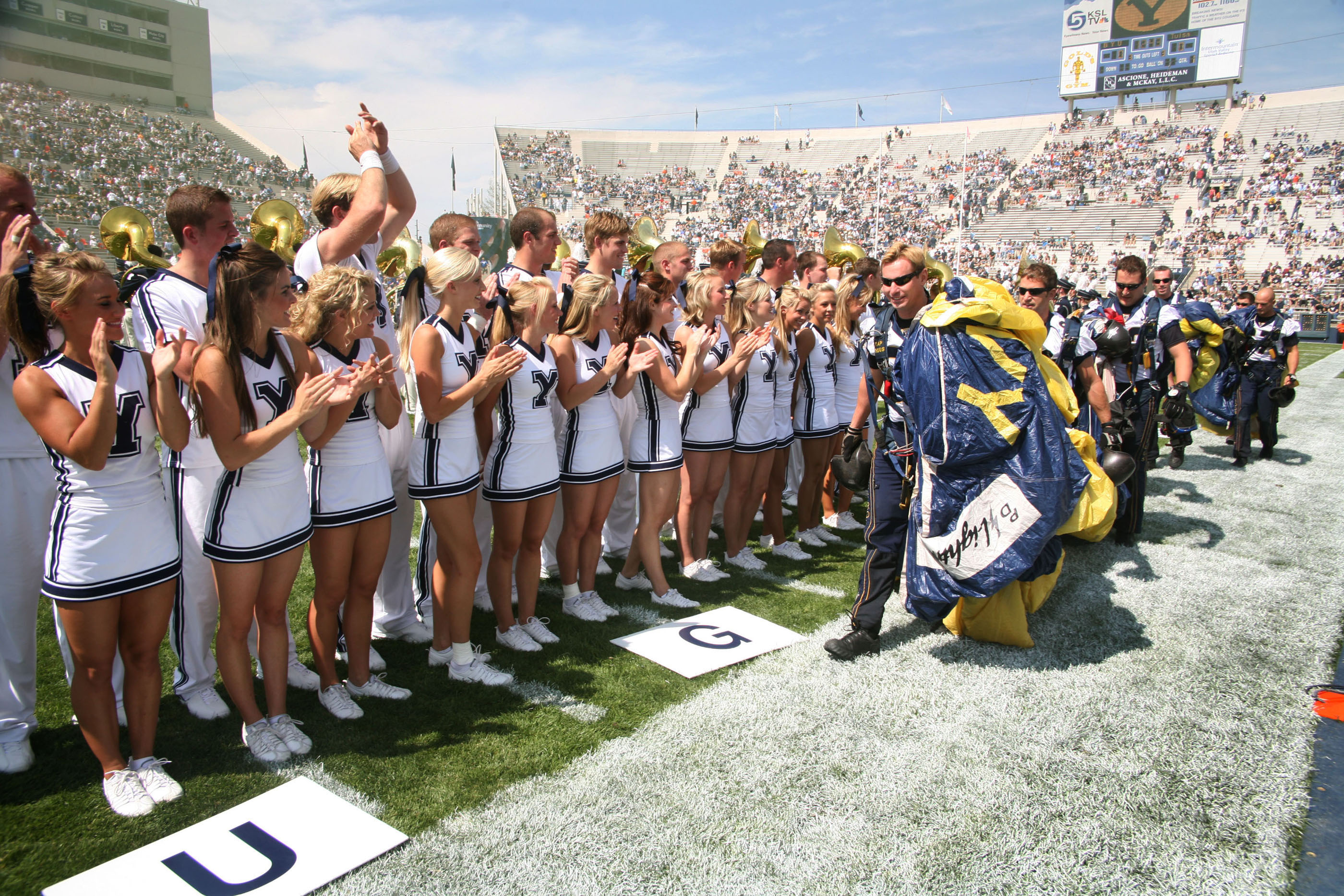 Provo, Utah (Sept. 9, 2006) - The Brigham Young University Cheer Squad greet the U.S. Navy Parachute Demonstration Team Leap Frogs after they parachuted into the stadium prior to the game. The Leap Frogs are in Utah to help celebrate Utah Navy Week. Twenty-six such weeks are planned in cities throughout the U.S., arranged by the Navy Office of Community Outreach (NAVCO). NAVCO is a unit tasked with enhancing the Navy's brand image in areas with limited exposure to the Navy. U.S. Navy photo by Chief Mass Communication Specialist Gary Ward (RELEASED)